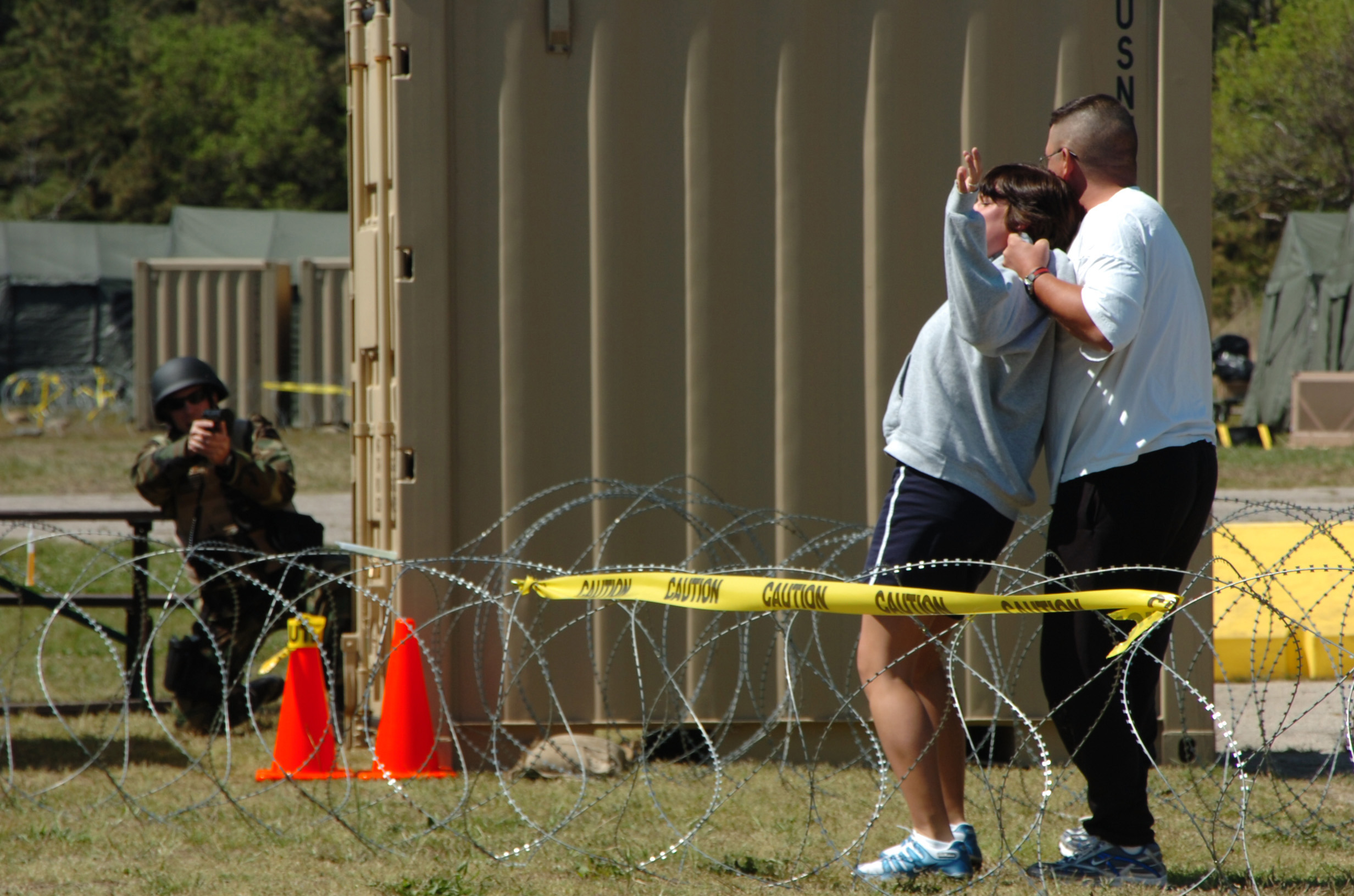 Norfolk, Va. (May 10, 2006) - A Sailor simulating crazed husband holds a gun on his wife during a training exercise for Sailors assigned to Mobile Inshore Undersea Warfare units attached to Naval Coastal Warfare Squadron Four (NCWS-4) on board Naval Amphibious Base Little Creek. The squadron's primary mission is anti-terrorism and force protection in harbors and coastal waterways overseas. U.S. Navy photo by Journalist 3rd Matthew D. Leistikow (RELEASED)